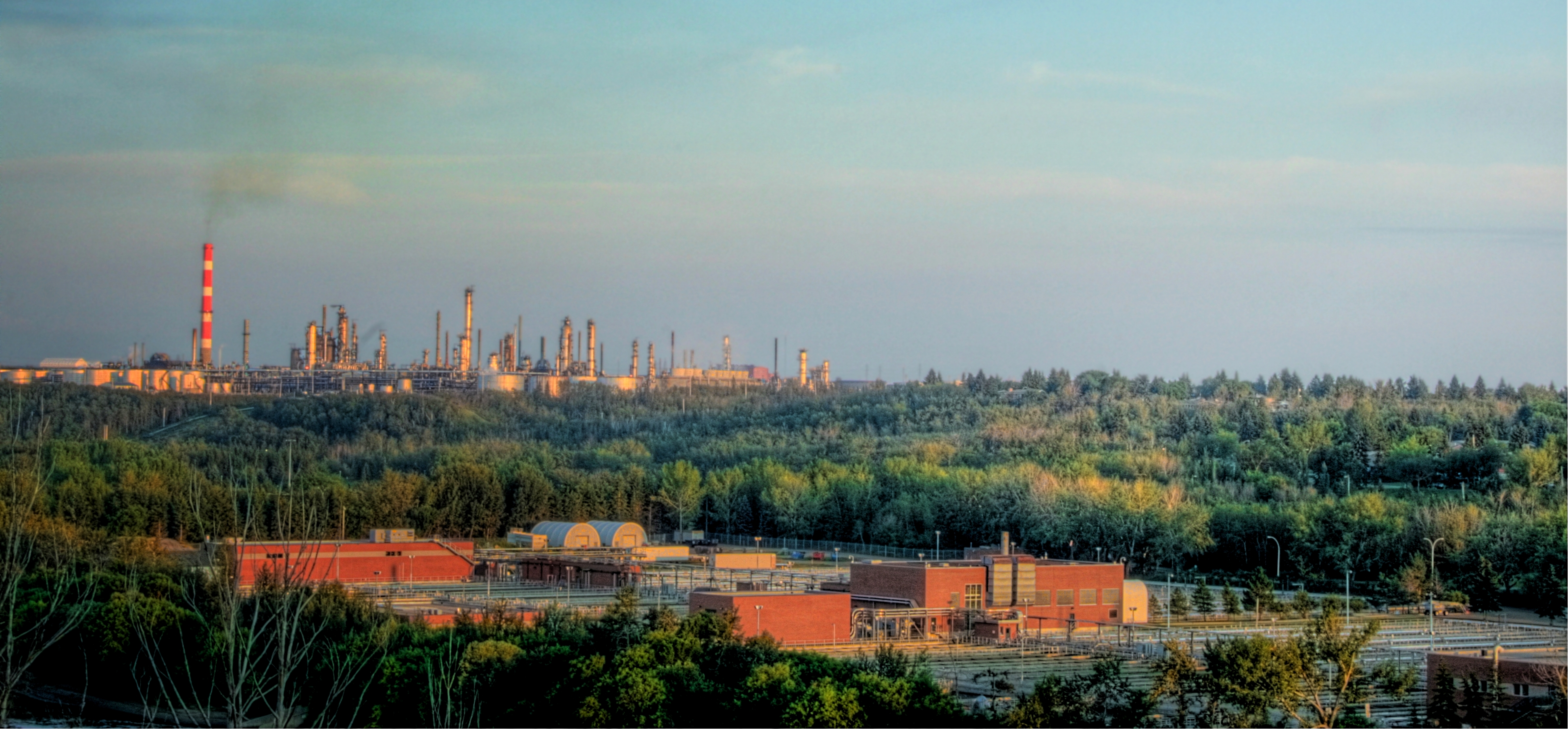 The Gold Bar Wastewater Treatment Plant (foreground) in Edmonton, Alberta, Canada. In the background is a portion of the "Refinery Row" petrochemical processing plants east of Edmonton.